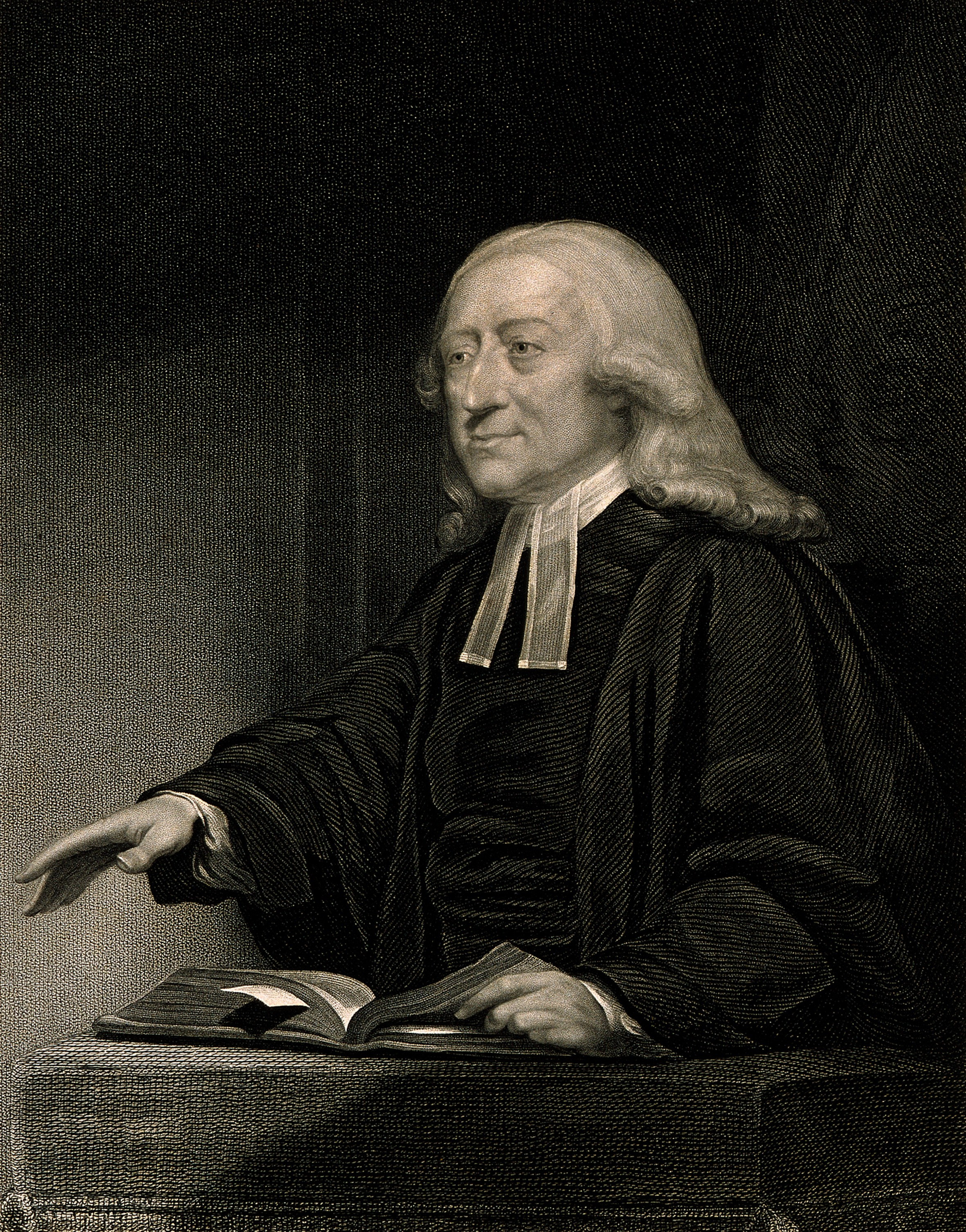 John Wesley. Engraving by J. Thomson after J. Jackson. Iconographic Collections Keywords: intaglio prints; portrait prints; John Wesley; John Thomson